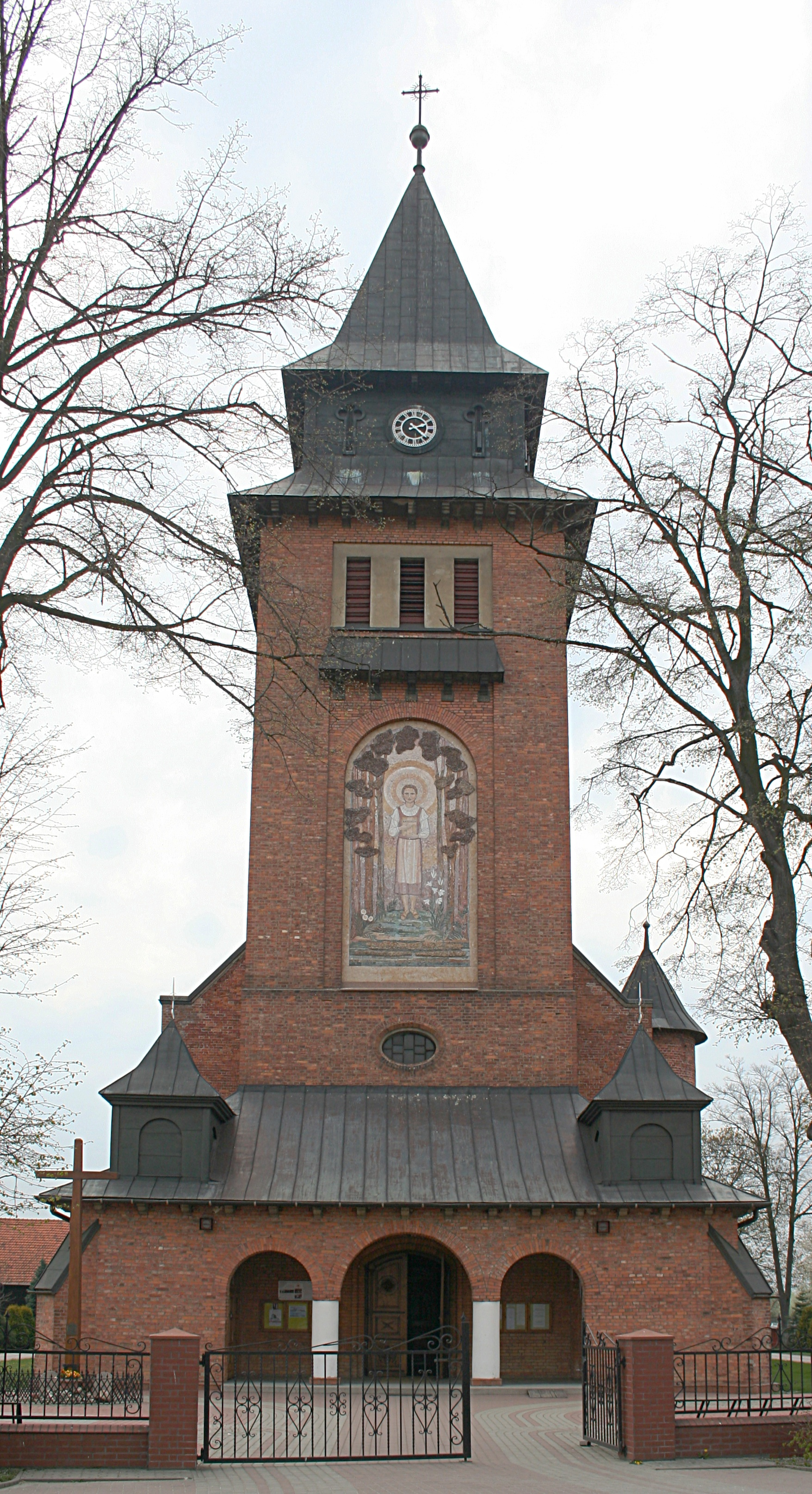 The Sanctuary of the Blessed Karolina Kózka in Zabawa, Poland.